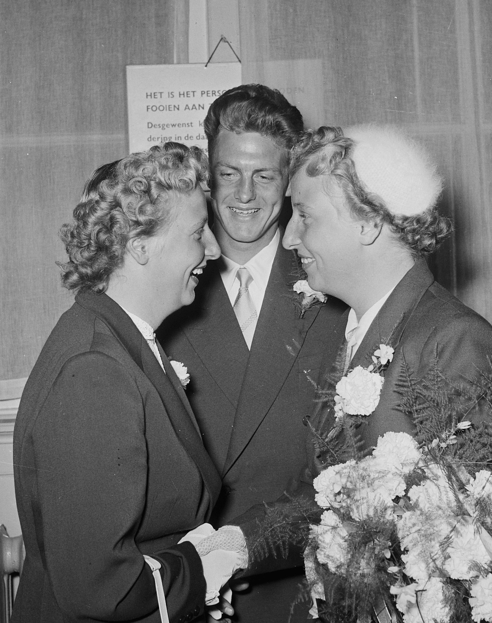 Huwelijk op het Stadhuis in Amsterdam waar zwemster Annie de Groot met heer Smits trouwt. Tweelingzuster Jannie feliciteert haar zuster